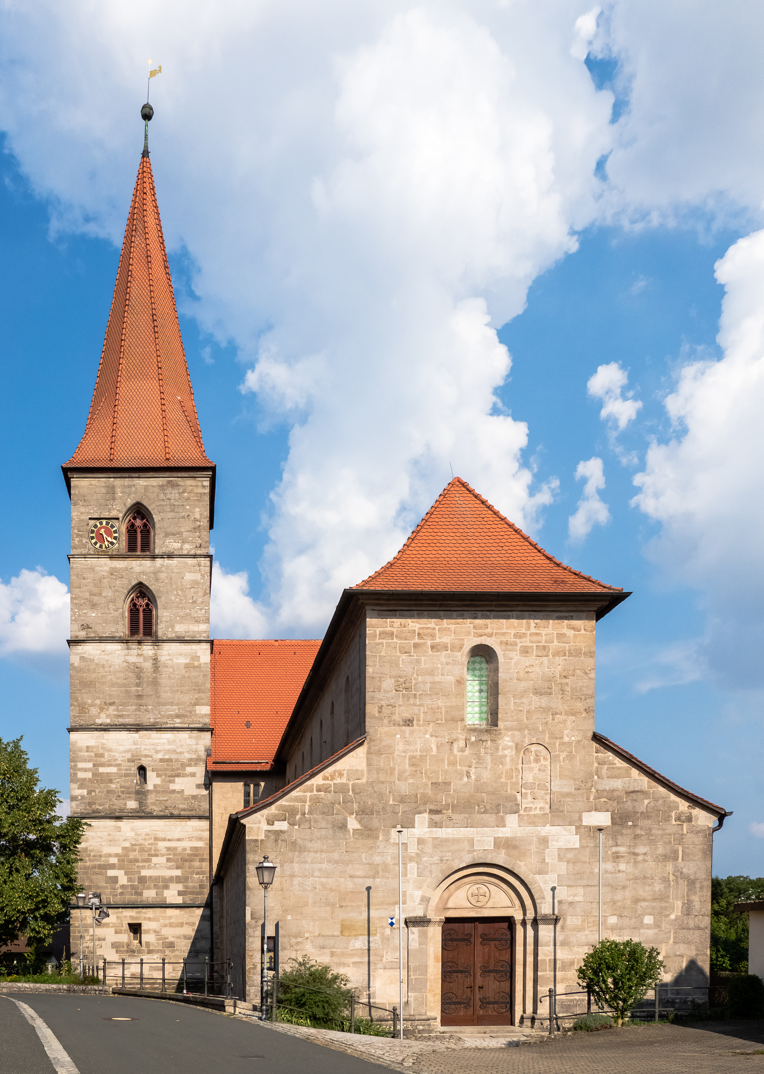 Former monastery church in Münchaurach